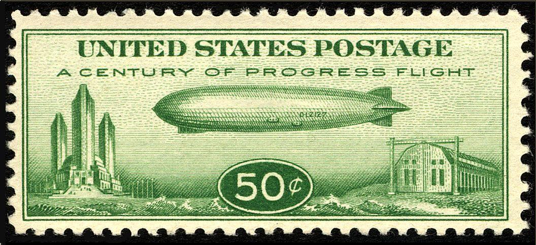 Century of Progress U.S. Airmail stampIn 1933 the German airship company Luftschiffbau Zeppelin G.m.b.H (Zeppelin Company) agreed to fly the LZ127 Graf Zeppelin to Chicago if the U.S. Post Office Department would issue a special postage stamp to help defray the enormous costs of the flight. On August 18 postal authorities agreed to issue a 50-cent zeppelin airmail stamp, 42½ cents of which would help offset the Zeppelin Company's expenses. The 50 cent stamp was designed by Victor S. McCloskey, Jr., which depicts the Graf Zeppelin air ship sailing over the Atlantic Ocean, to its destination of the Chicago World’s Fair.[1] Source ↑ Smithsonian National Postal Museum, 50-cent Century of Progress Issue